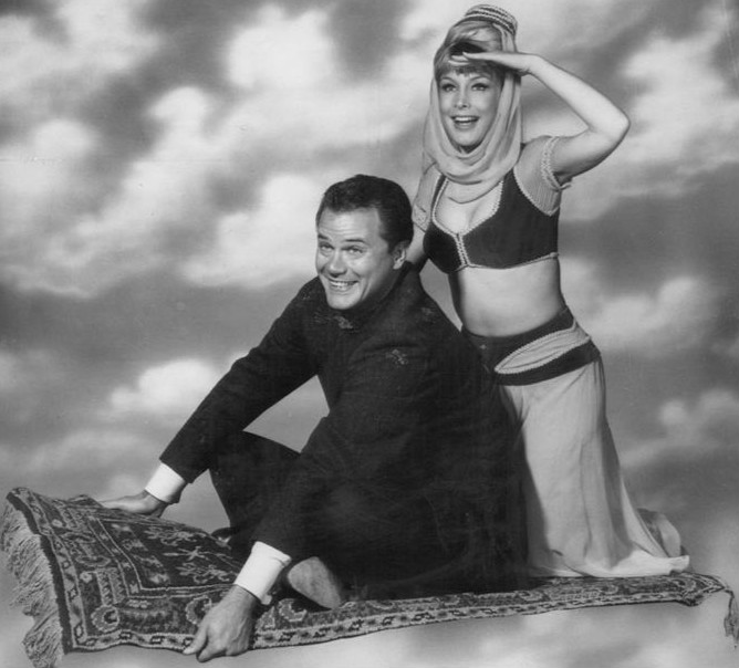 Publicity photo of Larry Hagman and Barbara Eden from I Dream of Jeannie.